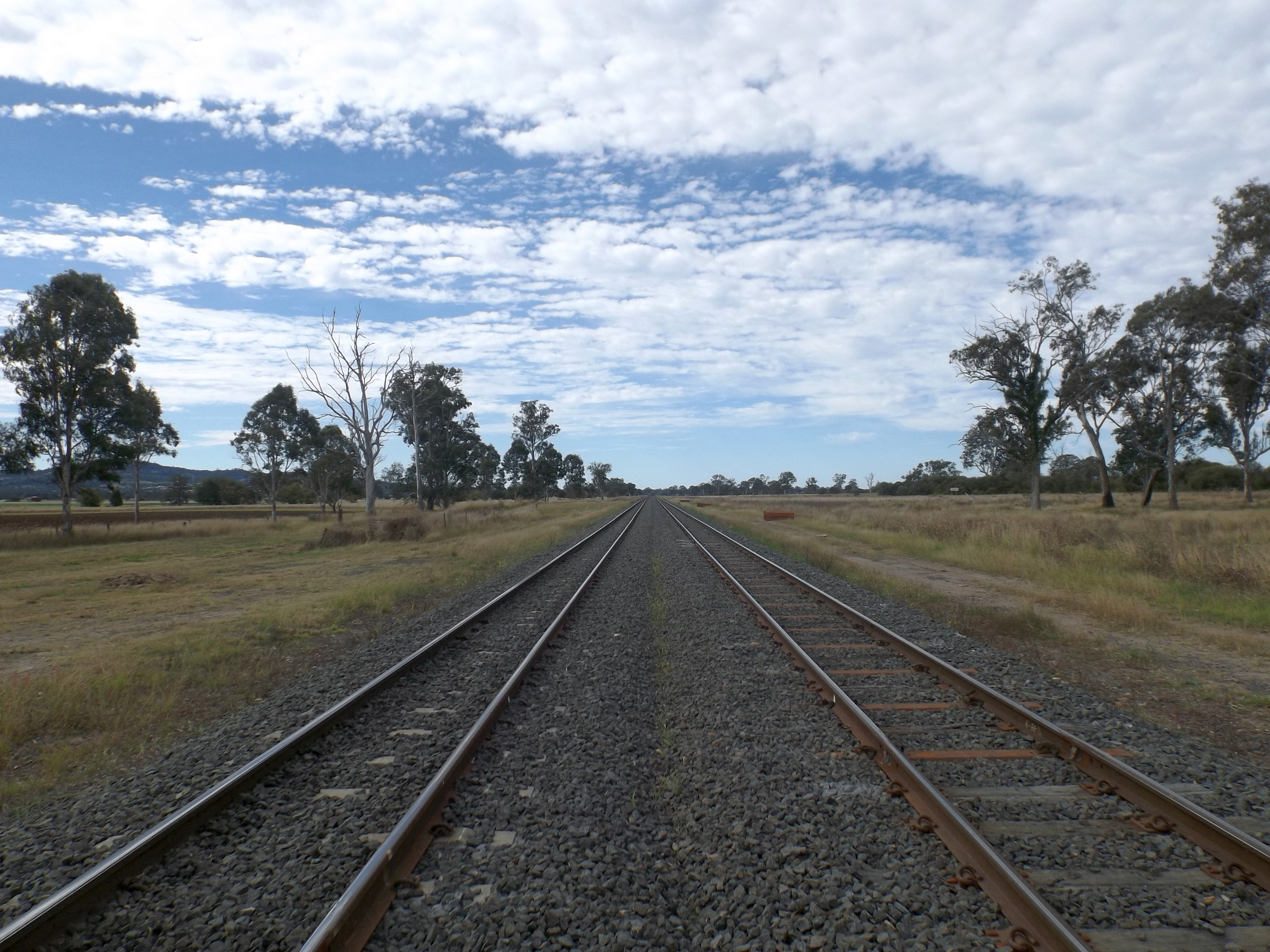 Photo of Paddocks at Main Line railway at Lane Road crossing in Lanefield, Ipswich, Queensland, Australia.